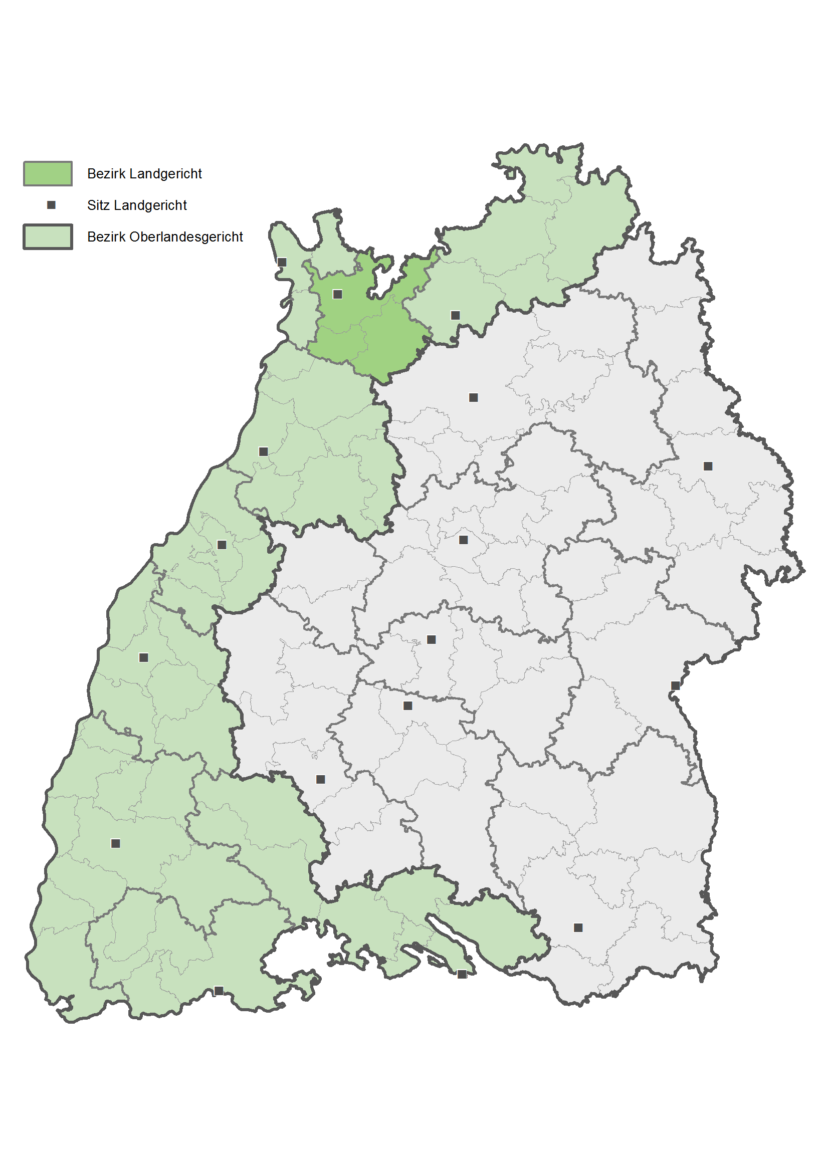 district map of the Landgericht (regional court) Heidelberg in Baden-Württemberg, Germany